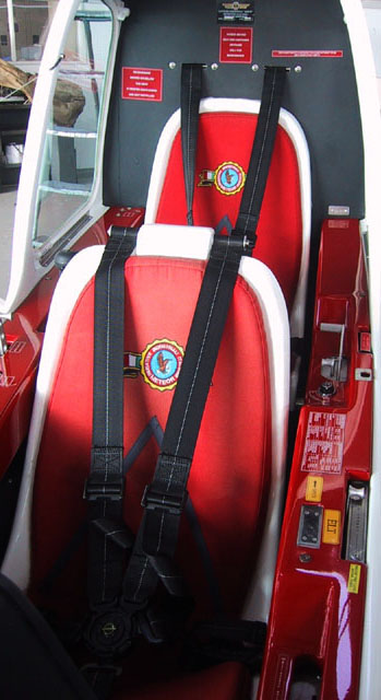 Sky Arrow 650 TCN Photo by Morgan Leigh. 2006.